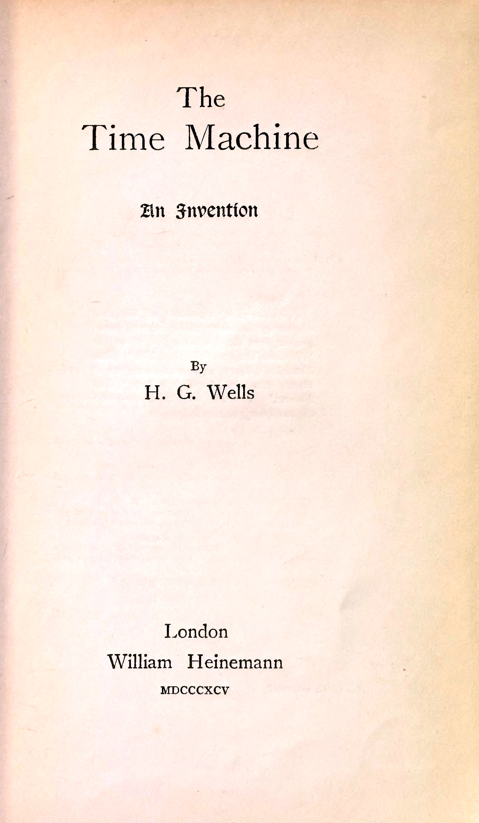 Title page of the original edition.